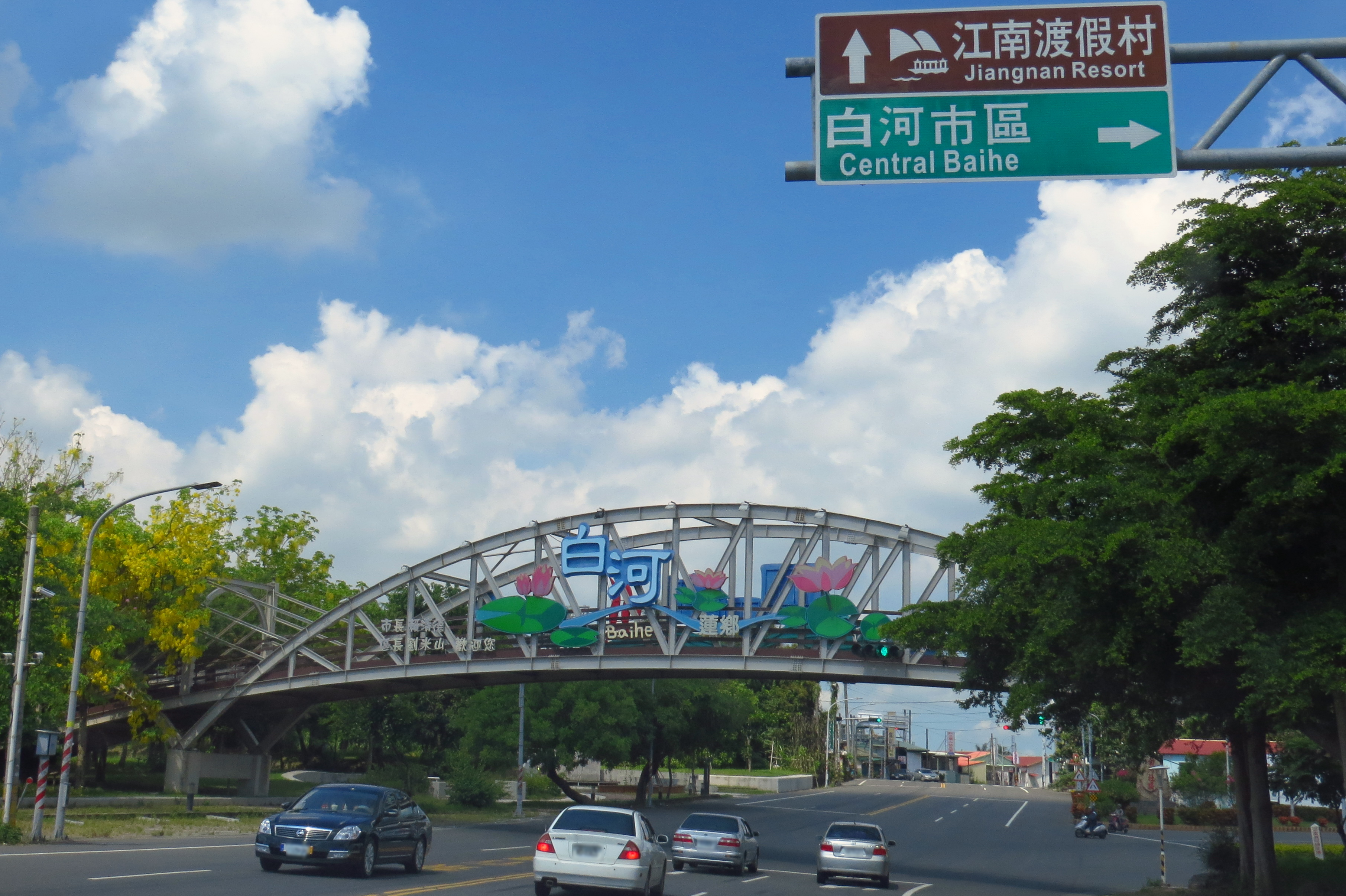 Baihe District, Tainan, Taiwan.